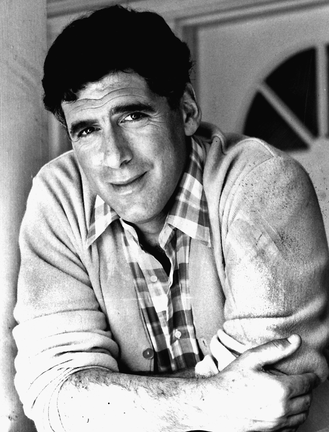 Publicity photo of Elliott Gould in Together We Stand.